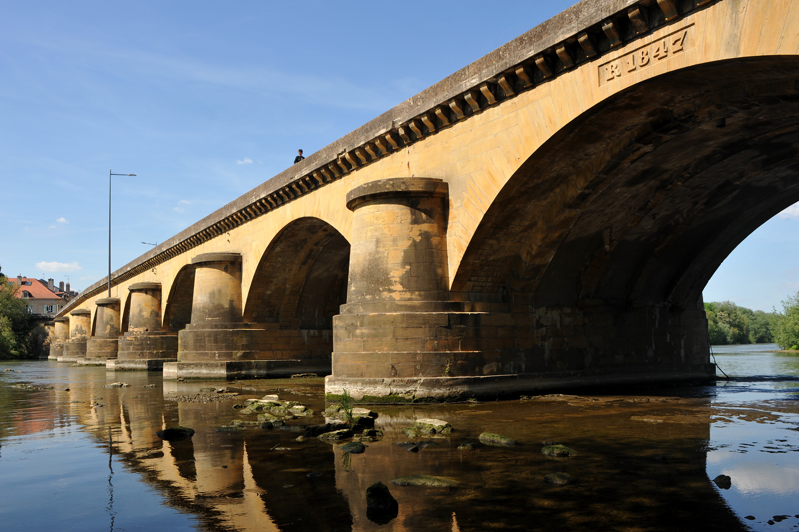 Pont des Morts over the Moselle in Metz; Moselle, France.